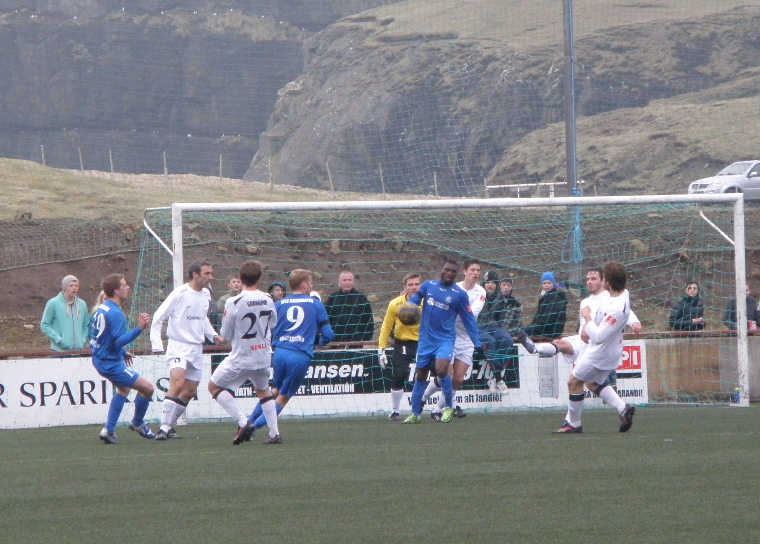 This photo is from the match between FC Suðuroy and EB/Streymur in the Faroe Islands Cup (Løgmanssteypið). The match was played Vesturi á Eiðinum Stadium in Vágur. The result was 1-4. EB/Streymur won the match. The match was played on the Flagday 25 April 2010. Føroyskt: Myndin er frá dystinum um Løgmanssteypið millum FC Suðuroy og EB/Streymur, sum varð spældur vesturi á Eiðinum í Vági. Úrslitið var, at EB/Streymur vann við 4 málum móti 1. Dysturin varð spældur flaggdagin 25. apríl 2010. FC Suðuroy leikararnir á myndini eru: Nr. 19 er Kári í Lágabø, nr. 9 er Palli Augustinussen og nr. 11 er Obi Charles (nummarið hjá honum sæst ikki á myndini). Nr. 8 hjá EB/Streymur er landsliðsleikarin Egil á Bø.